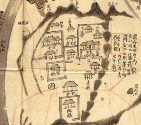 cropped version of File:Buyeo 1872.png